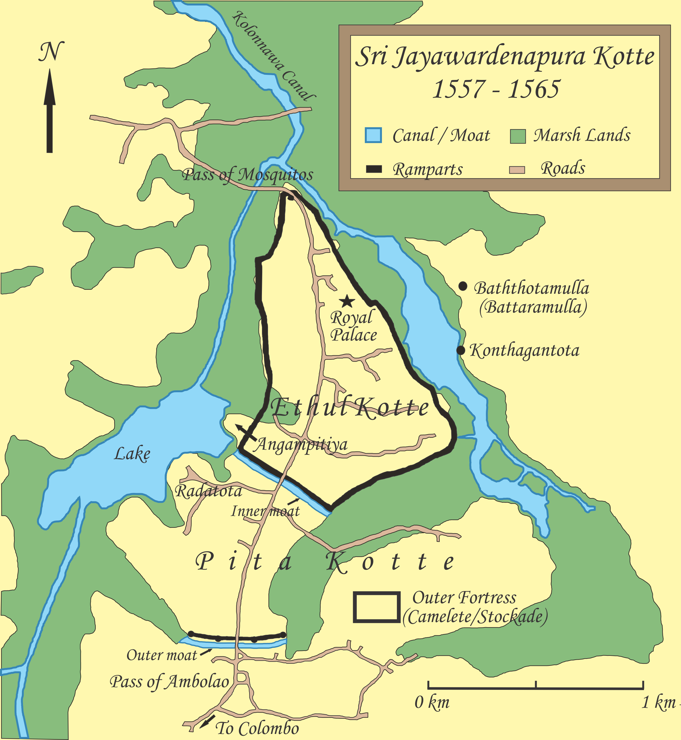 Map of Sri Jayawardenapura Kotte and its defenses from 1557 - 1565. Map based on following sources; - Map of Sri Jayawardenapura Kotte by historian Douglas D. Ranasinghe. -Details in “Fernao de Queyroz. The temporal and spiritual conquest of Ceylon. AES reprint. New Delhi: Asian Educational Services; 1995. ISBN 81-206-0765-1” -Map of Jayawardenapura Kotte and environ “Paul E.Peiris. Ceylon the Portuguese Era: being a history of the island for the period, 1505-1658 - Volume 1. Tisara Publishers Ltd:Sri Lanka; 1992. p 142-143”